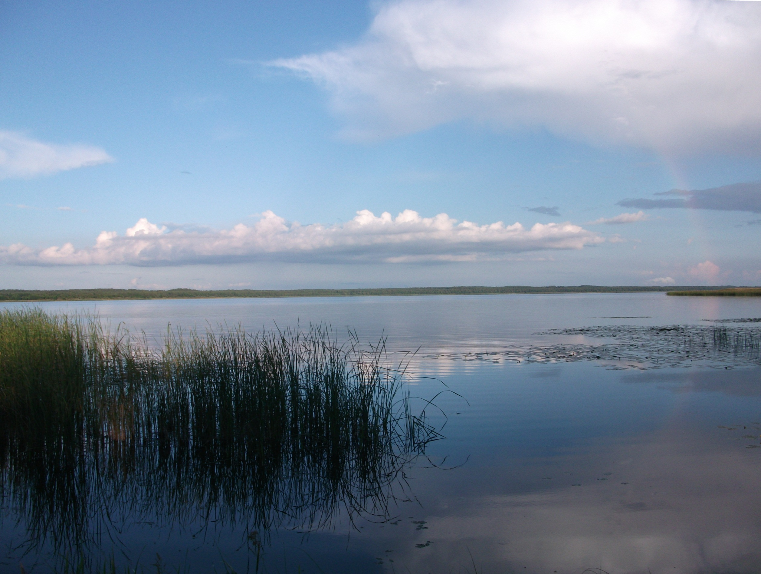 Lisna lake from the direction of Dzianisienki village